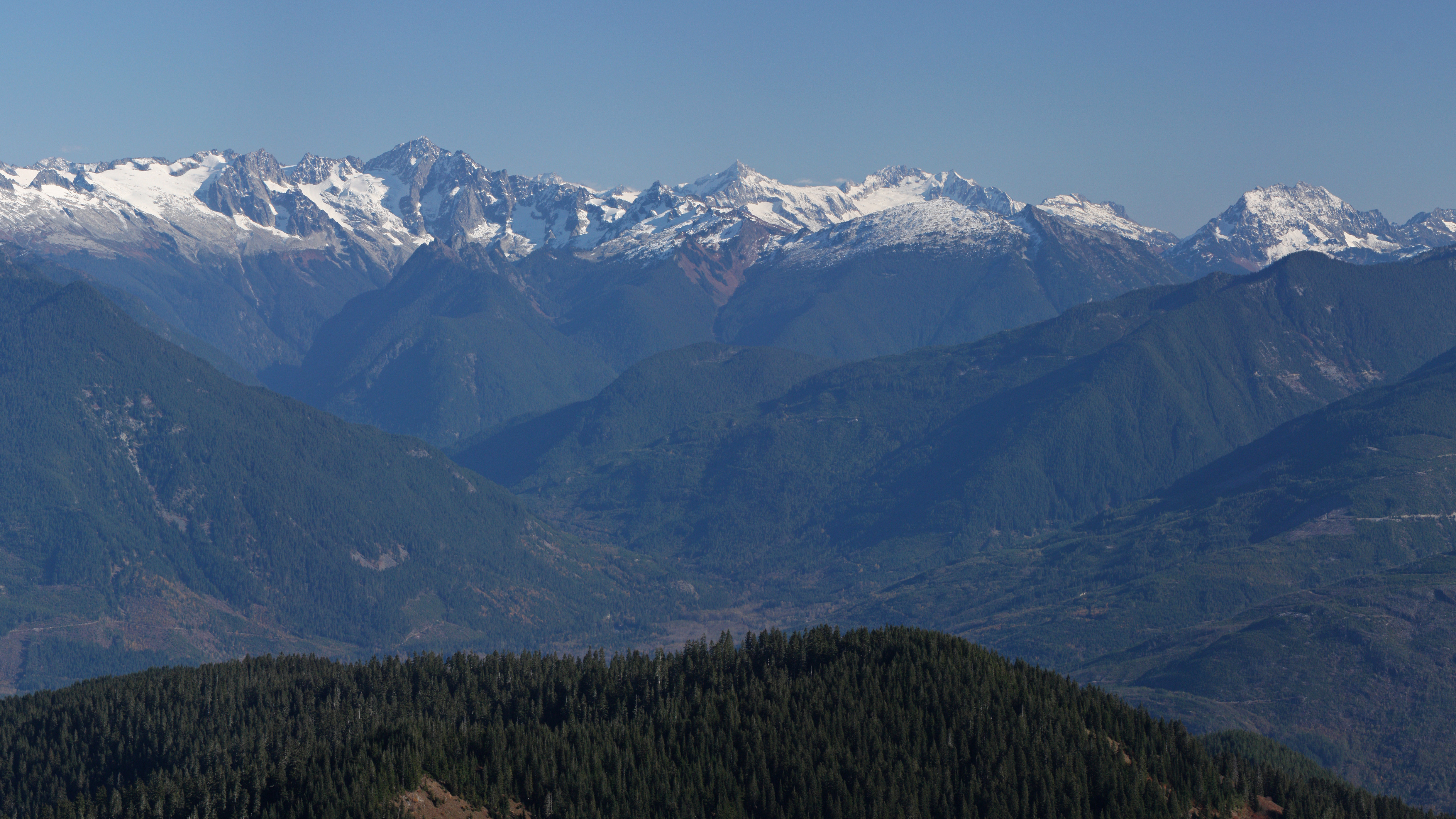 The south portion of North Cascades National Park; Eldorado Peak (left center skyline); Tepeh Towers (left skyline); Dorado Needle (left skyline above prominent cliff system); Forbidden Peak (center skyline); Boston Peak (right center skyline); Booker Mountain (right of Boston); Johannesburg Mountain (right); Hidden Lake Peaks (right center, middle distance); Cascade River Valley (center and right middle distance); Marble Creek Valley (left middle distance) Stitched panorama: Please see "Other versions" for source images. This image was created with Hugin. Viewpoint location: Sauk Mountain Trail #613, Mount Baker-Snoqualmie National Forest Viewpoint elevation: 1682 meter (5520 ft) View direction: 96° Location source: Garmin GPSmap 60CSx Location Datum: WGS84